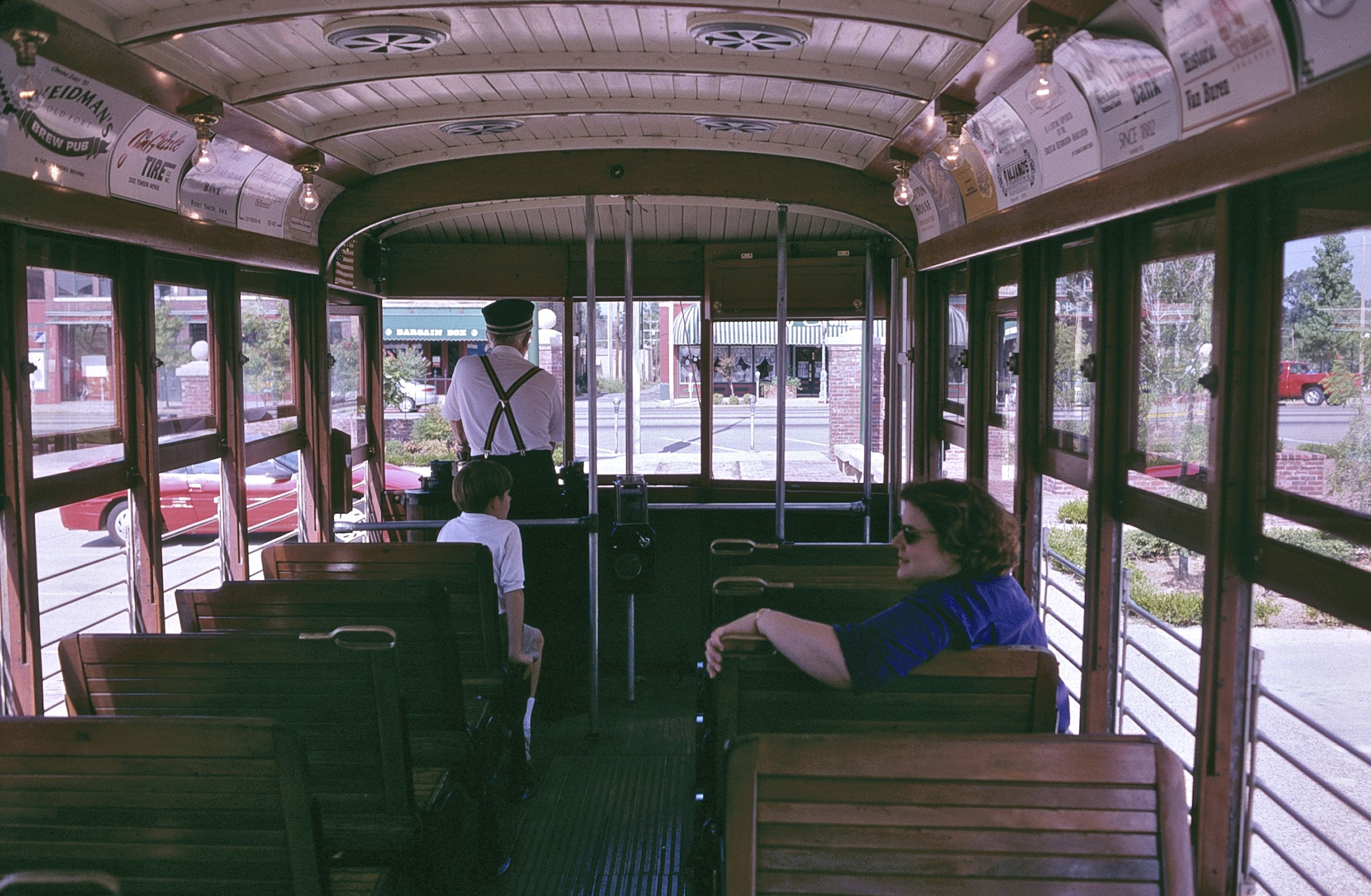 Interior view of Fort Smith streetcar No. 224, a "Birney Safety Car" built in 1926 and listed (since 1994) on the U.S. National Register of Historic Places (NRHP). In this photo, car 224 has just reached the end of the line, which at that time was at the southern edge of Garrison Avenue (in the background), on private right-of-way between (and parallel to) 3rd Street and 4th Street. This terminus opened in August 1996, but in November 2002 the line was extended west, starting with a curve just before this location, turning this location into a short branch that is normally unused.